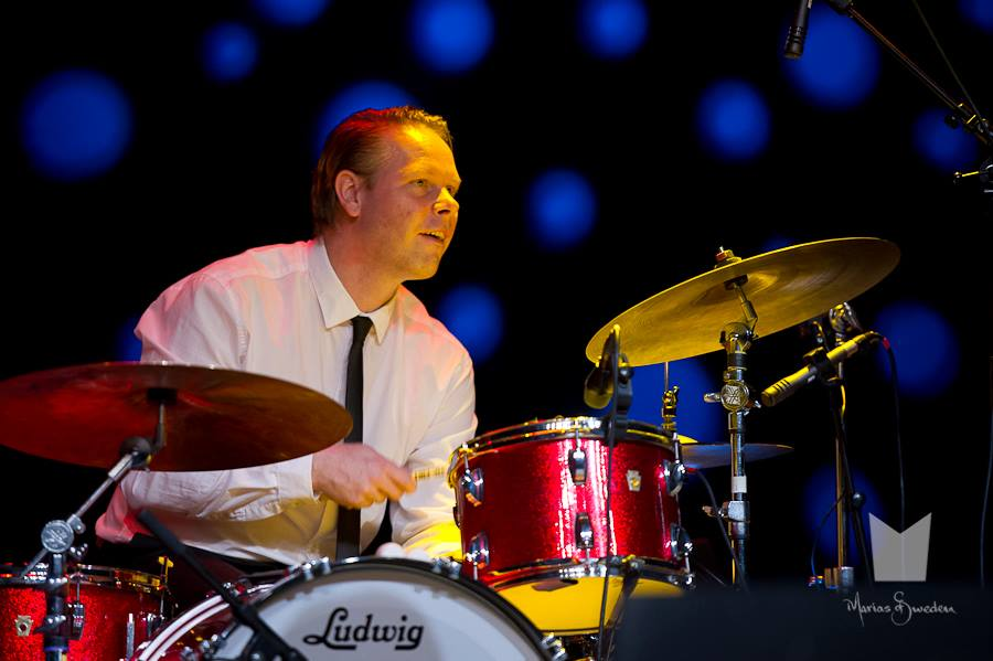 Andreas Dahlback, Caroline af Ugglas Bollnas 2013.